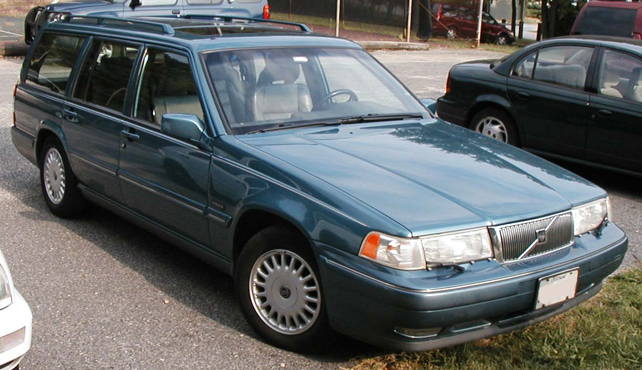 1995-1998 Volvo 960 photographed in USA.